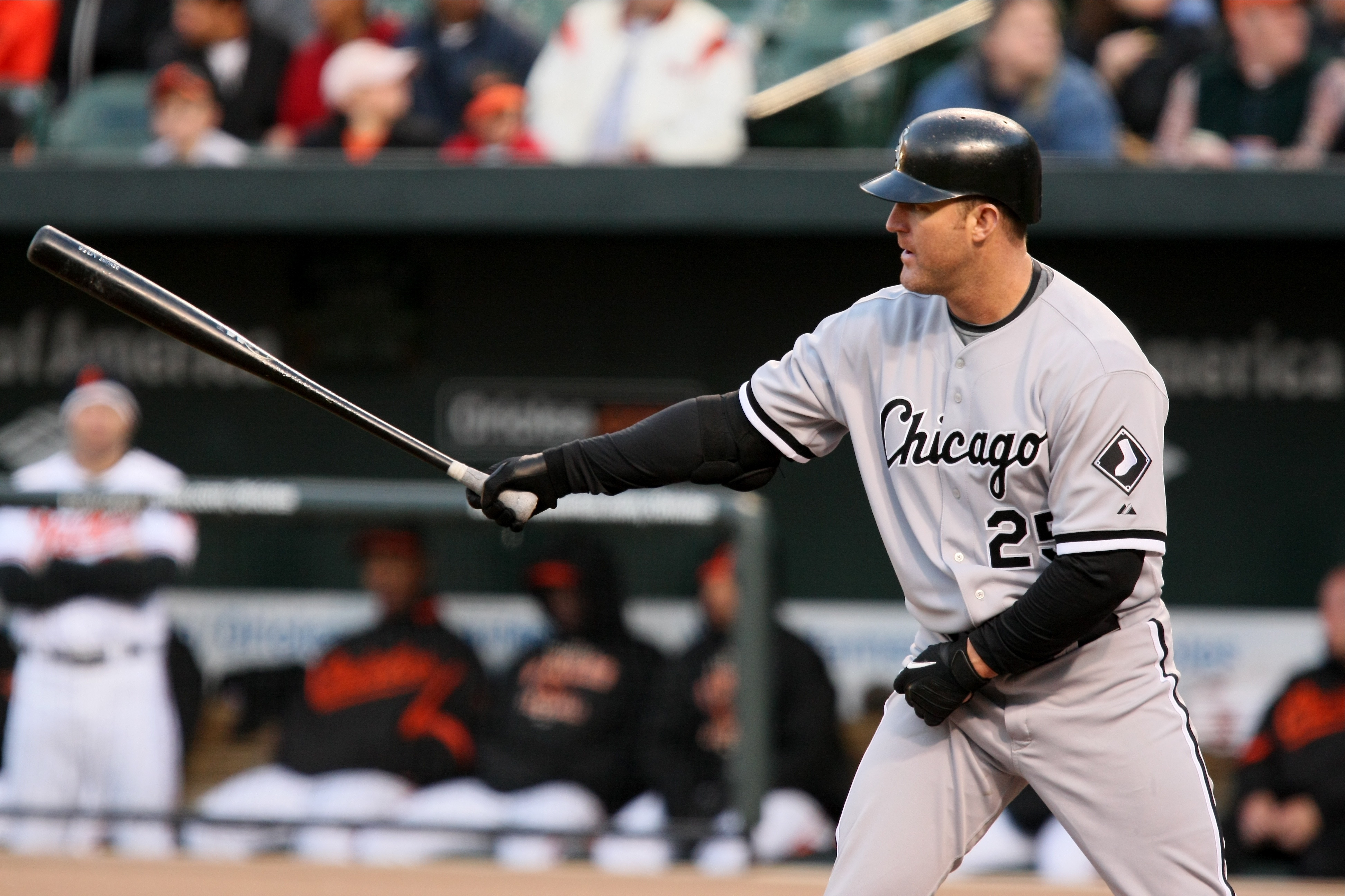 Jim Thome